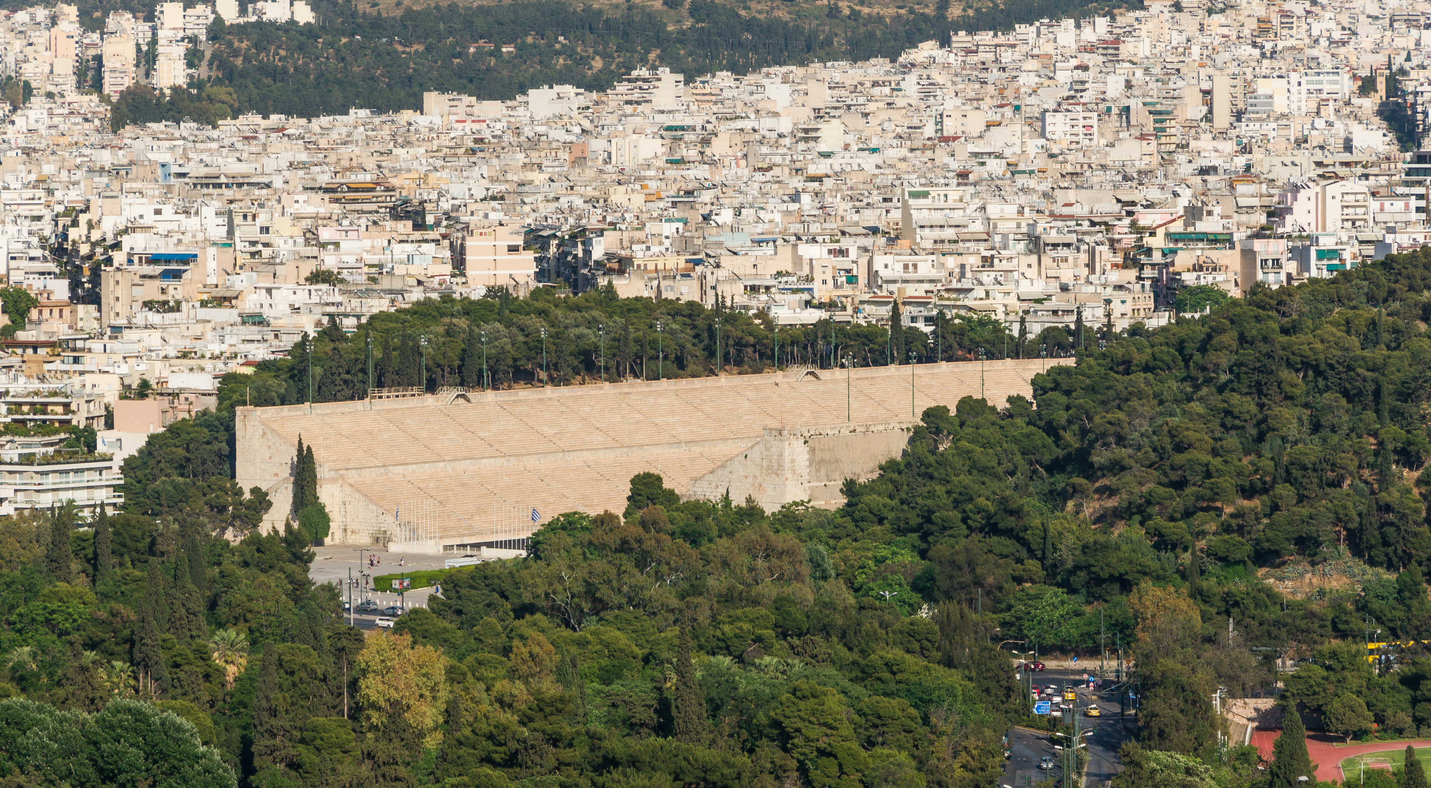 Panathenaic stadium, Pangrati borrough, from Acropolis, Athens, Greece